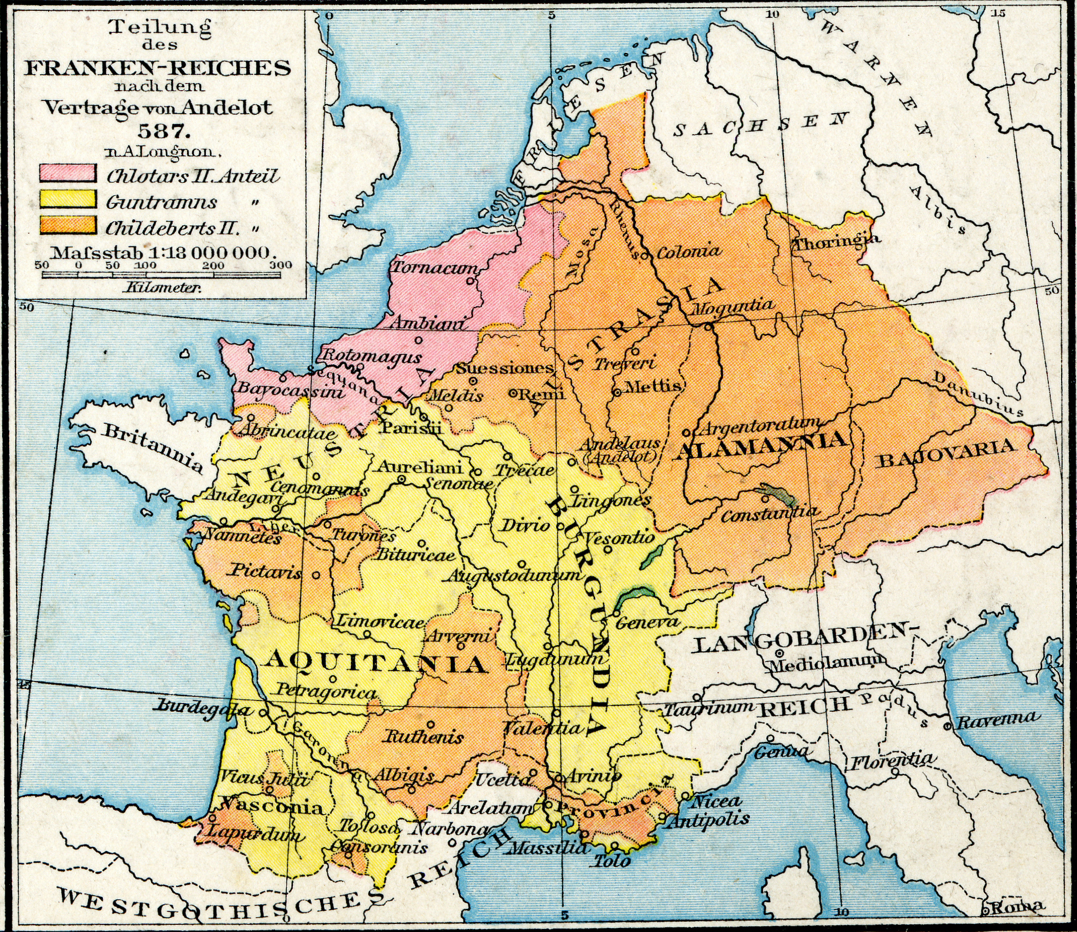 Third inset from plate 20 of Professor G. Droysens Allgemeiner Historischer Handatlas, published by R. Andrée. Shows the kingdom of France in 587.